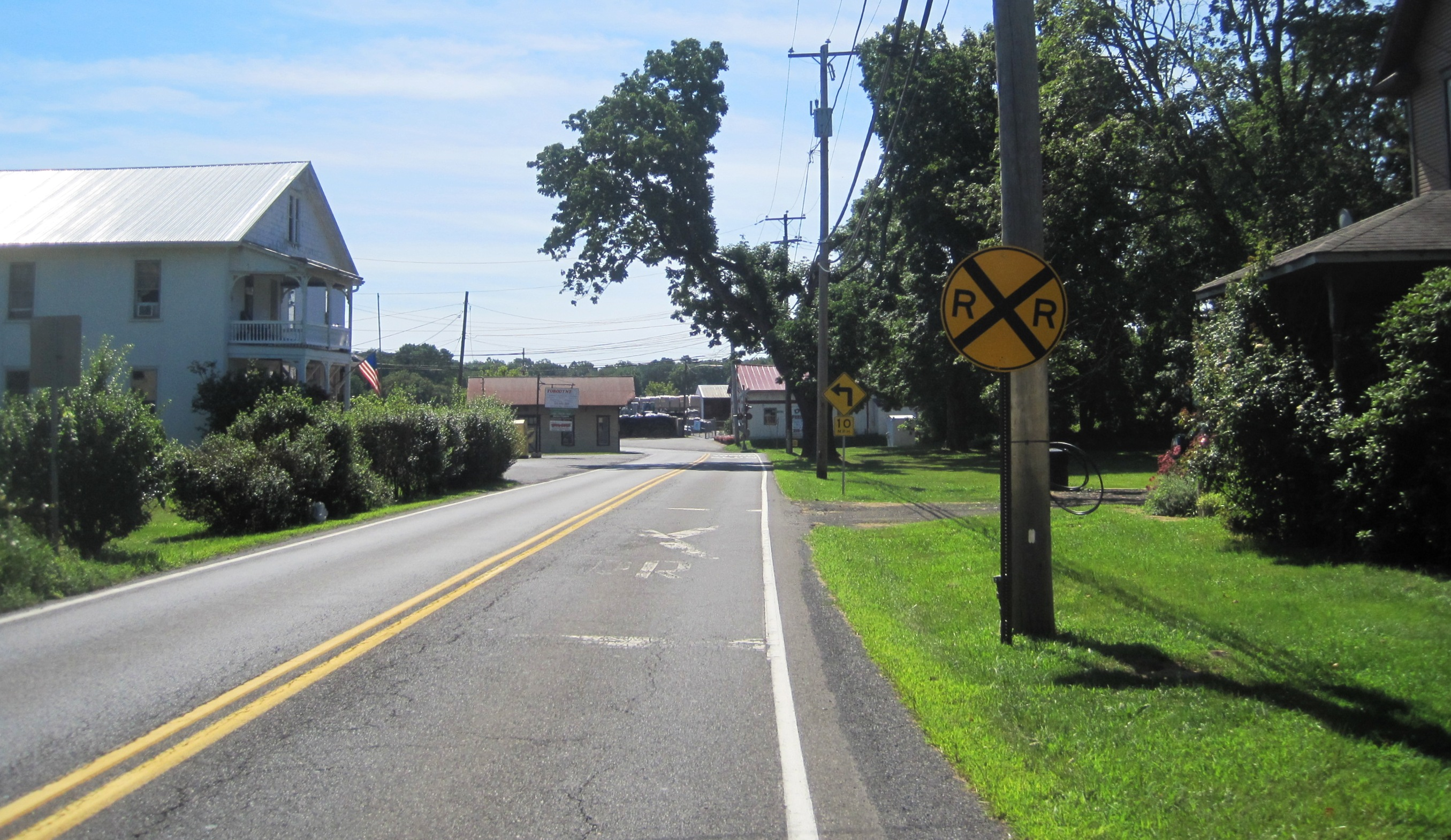 Photo of the unincorporated community of Rushland, Pennsylvania within Wrightstown Township, Bucks County. Photo taken along eastbound Swamp Road approaching the New Hope and Ivyland Railroad crossing.